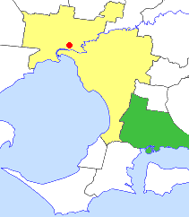 Location of the Shire of Cranbourne within outer Melbourne.